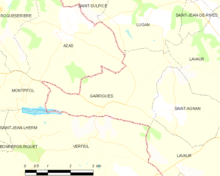 Map of French municipality Garrigues